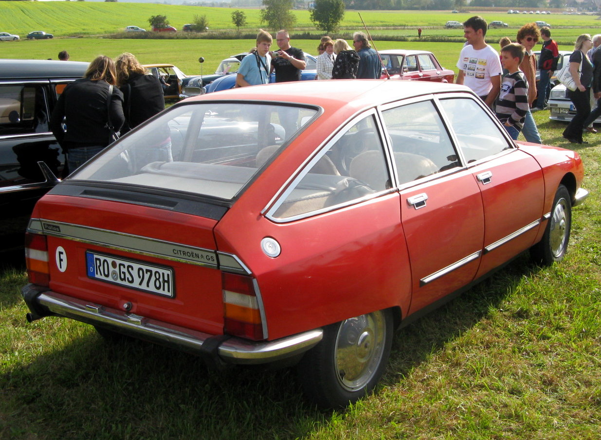 1978 Citroen GS Pallas at vintage vehicle & airplane show in Jesenwang (Bavaria)